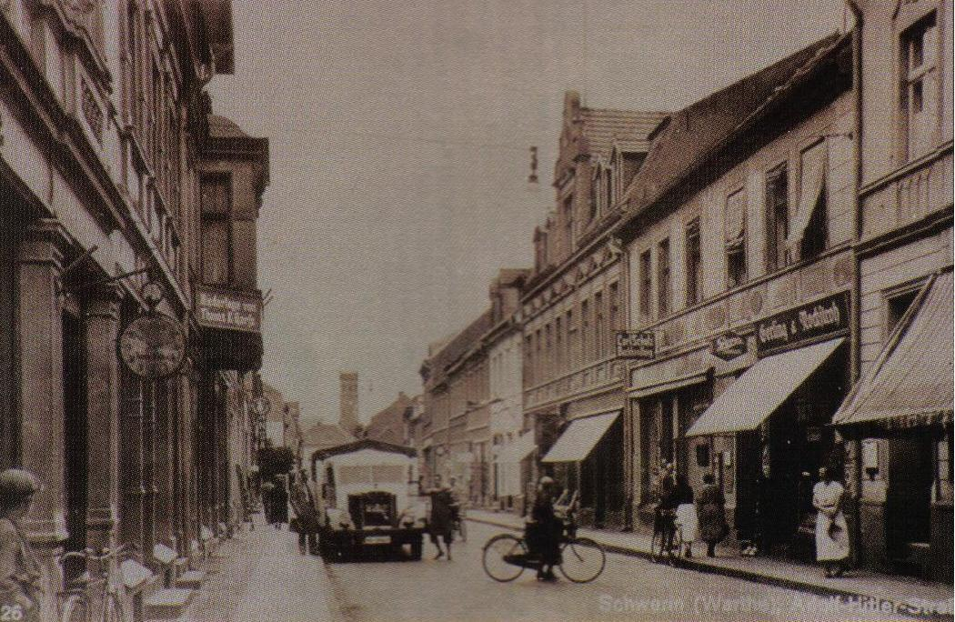 Old German post card with a view of Adolf-Hitler-Straße in Schwerin an der Warthe. The photo is from late 1930's. Today it's Pilsudskiego Street in Skwierzyna (lubuskie voivodship), Poland.